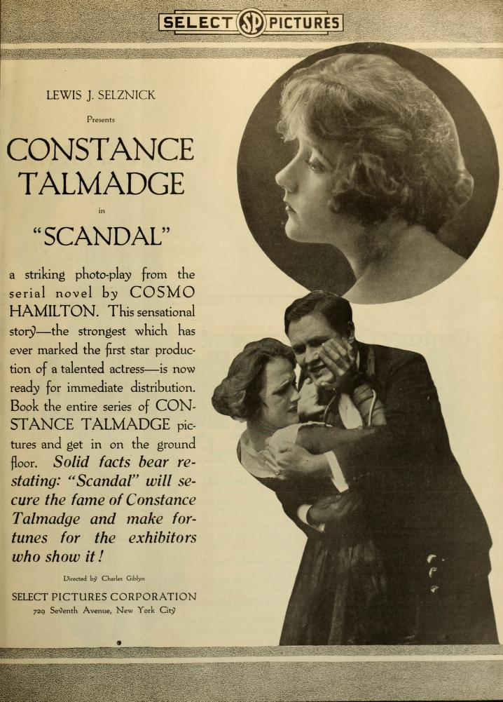 Advertisement in the November 1917 Moving Picture World for the American film Scandal (1917) with Constance Talmadge.